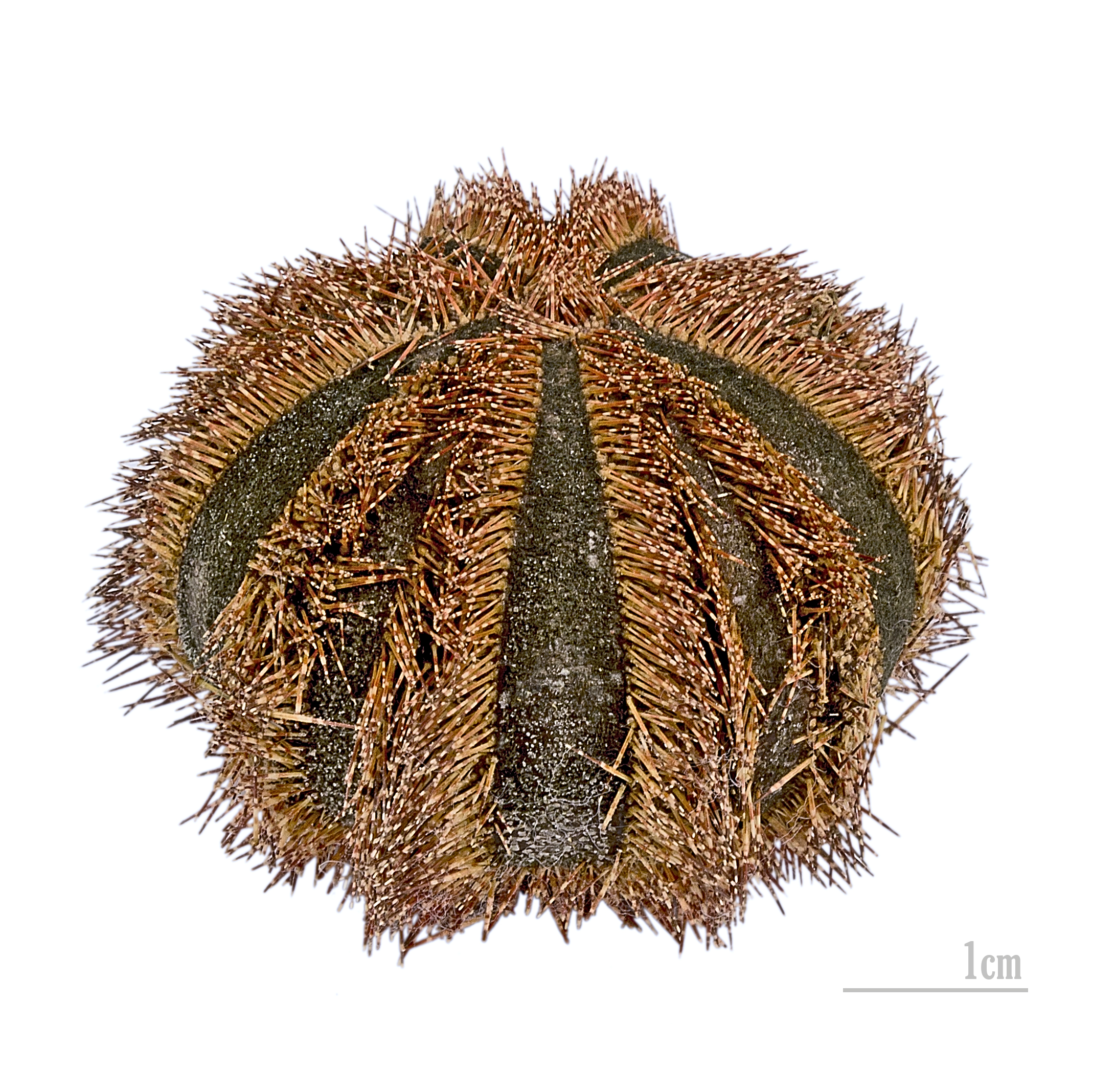 Sphere urchin